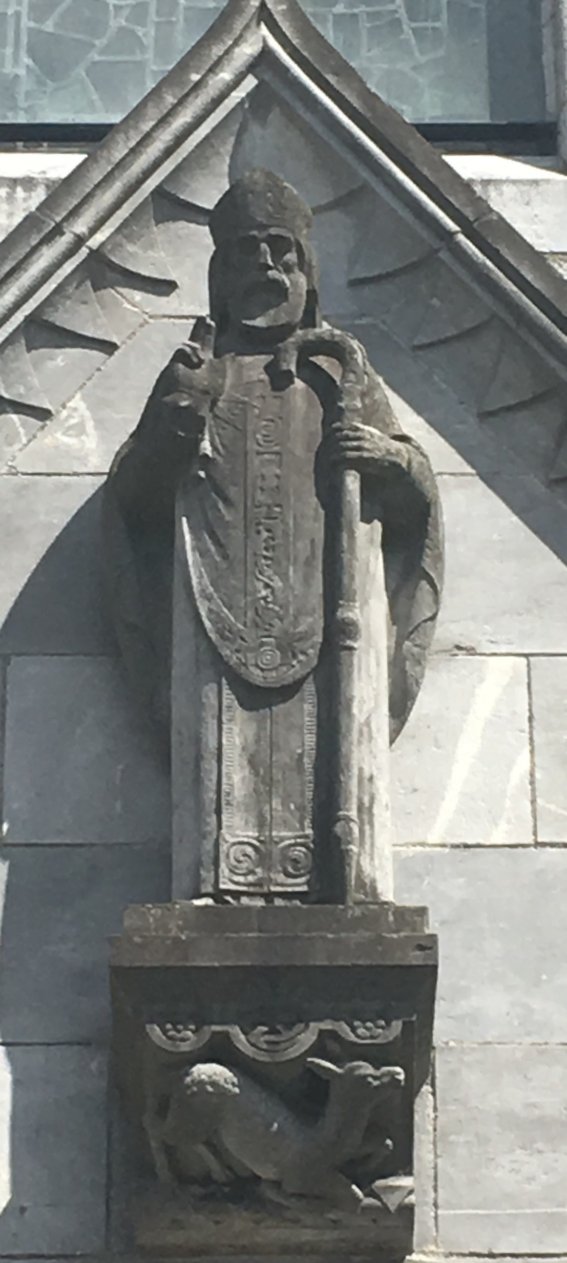 Tympanum of St. Finbarr, Honan chapel, Cork